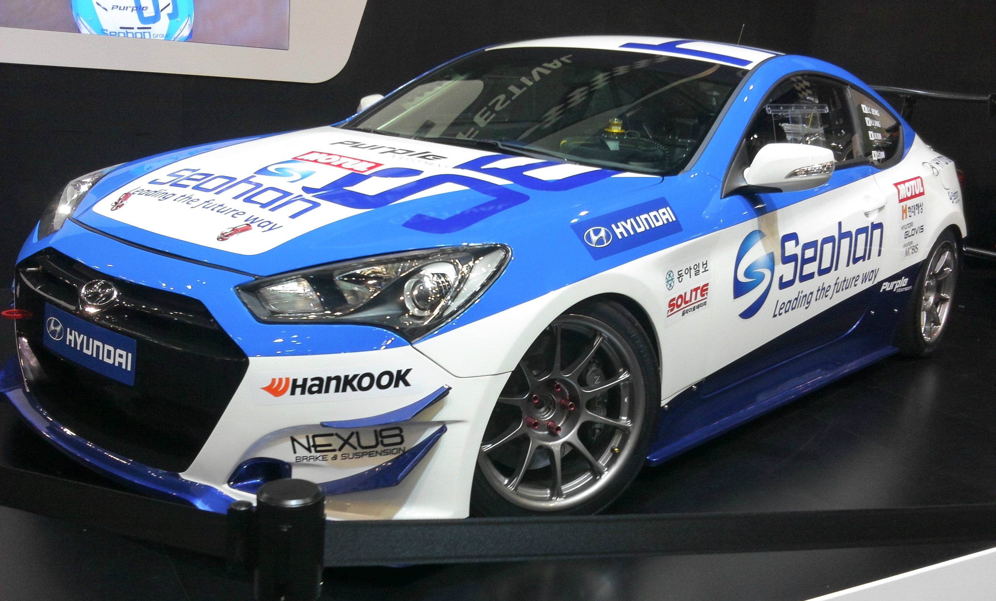 Front-left side of Hyundai Genesis Coupe Race car.